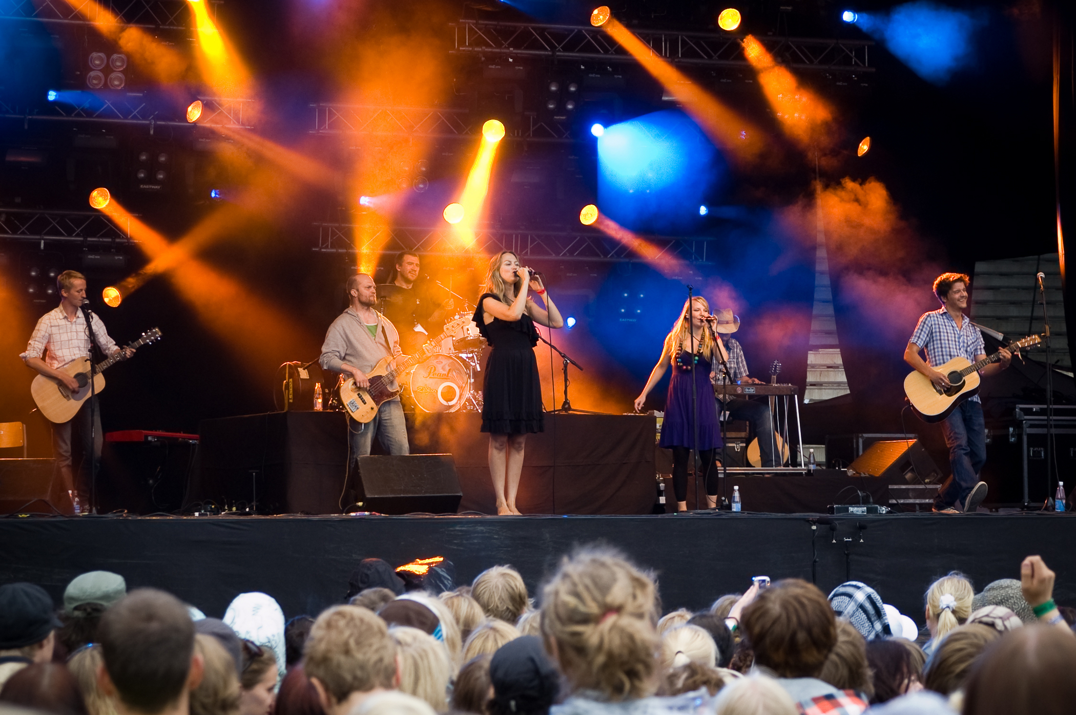 The Finnish band Scandinavian Music Group performing on the main stage of the Ilosaarirock festival on the 12th of July 2008.